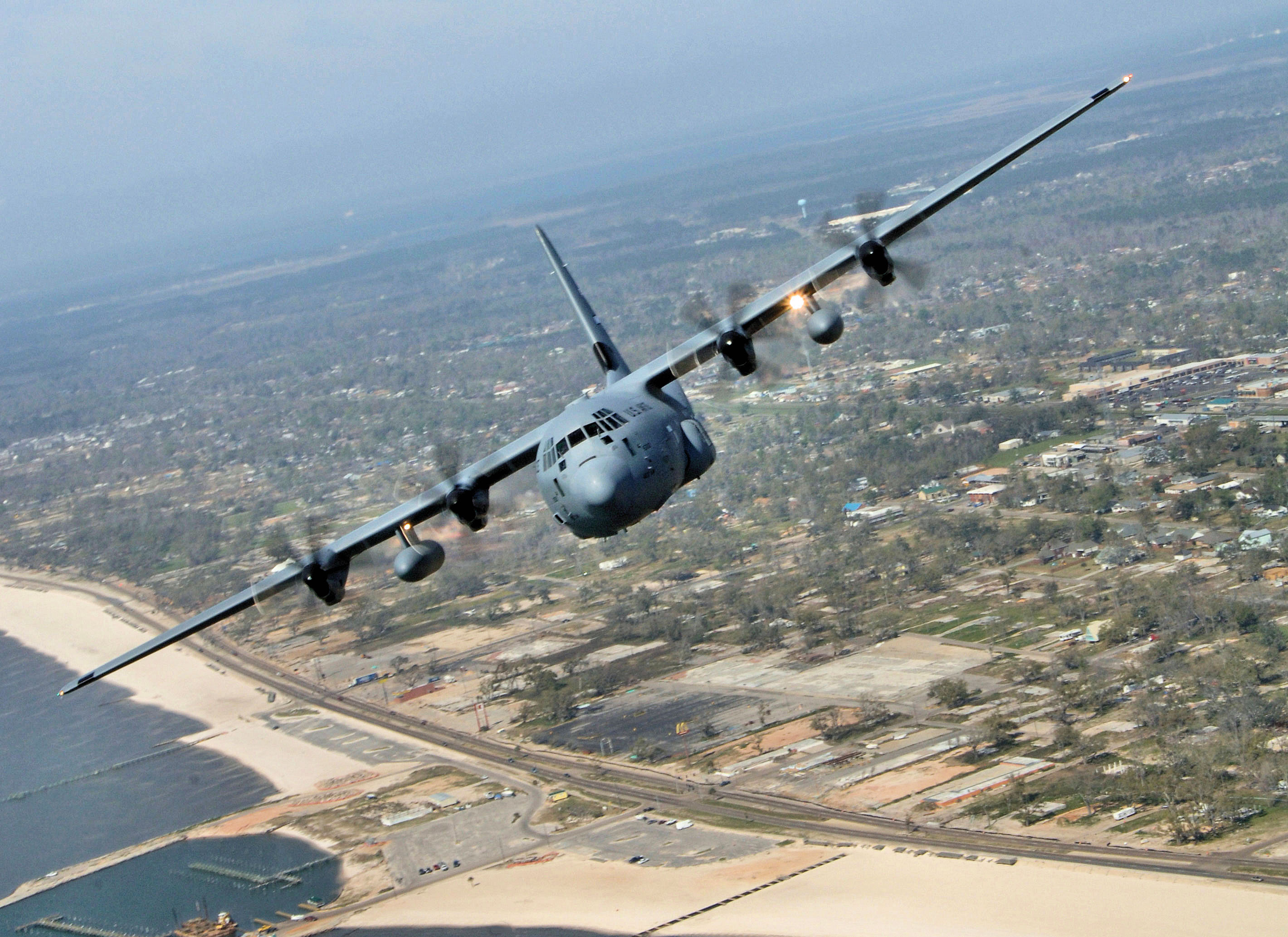 The Hurricane Hunters answer the call to an early kickoff of this year's hurricane season, which arrived nearly a month early with the development of Subtropical Storm Andrea off the coast of Georgia. This year, the state-of-the-art WC-130J aircraft will be equipped with the Stepped-Frequency Microwave Radiometer which allows the Citizen Airman of the Hurricane Hunters to constantly measure surface winds directly below the aircraft. (U.S. Air Force Photo/Tech. Sgt. James Pritchett)